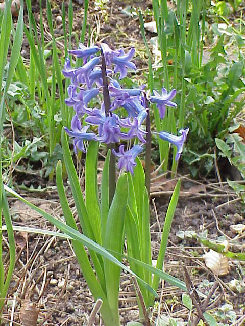 Species: Hyacinthus orientalis Family: Hyacinthaceae Image No. 1